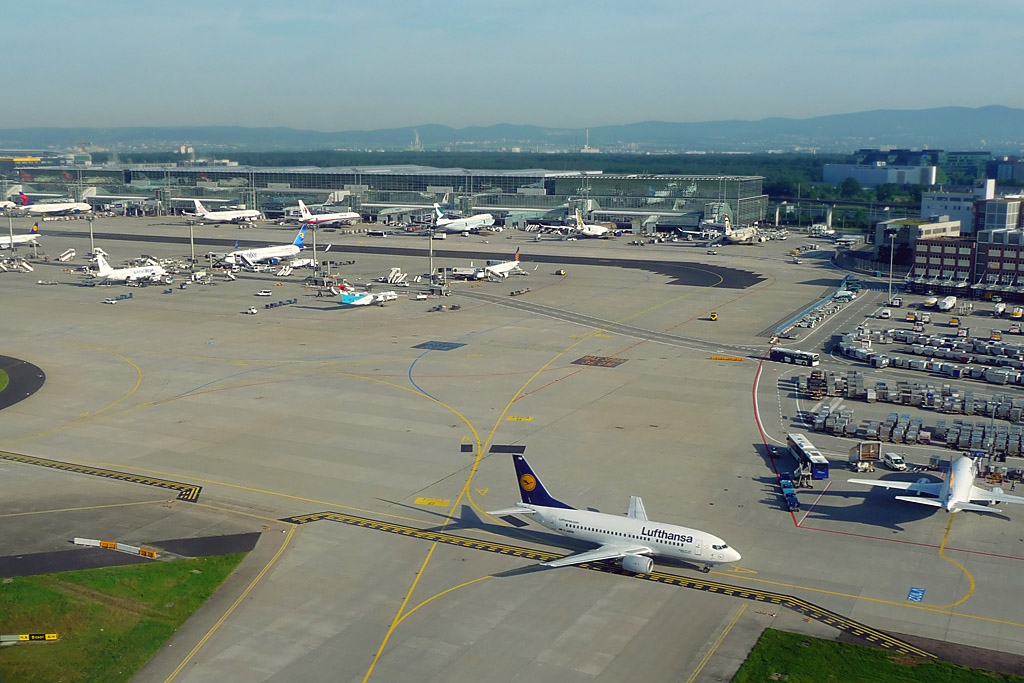 Terminal 2 and eastern apron of Frankfurt Intl. Airport, Germany.